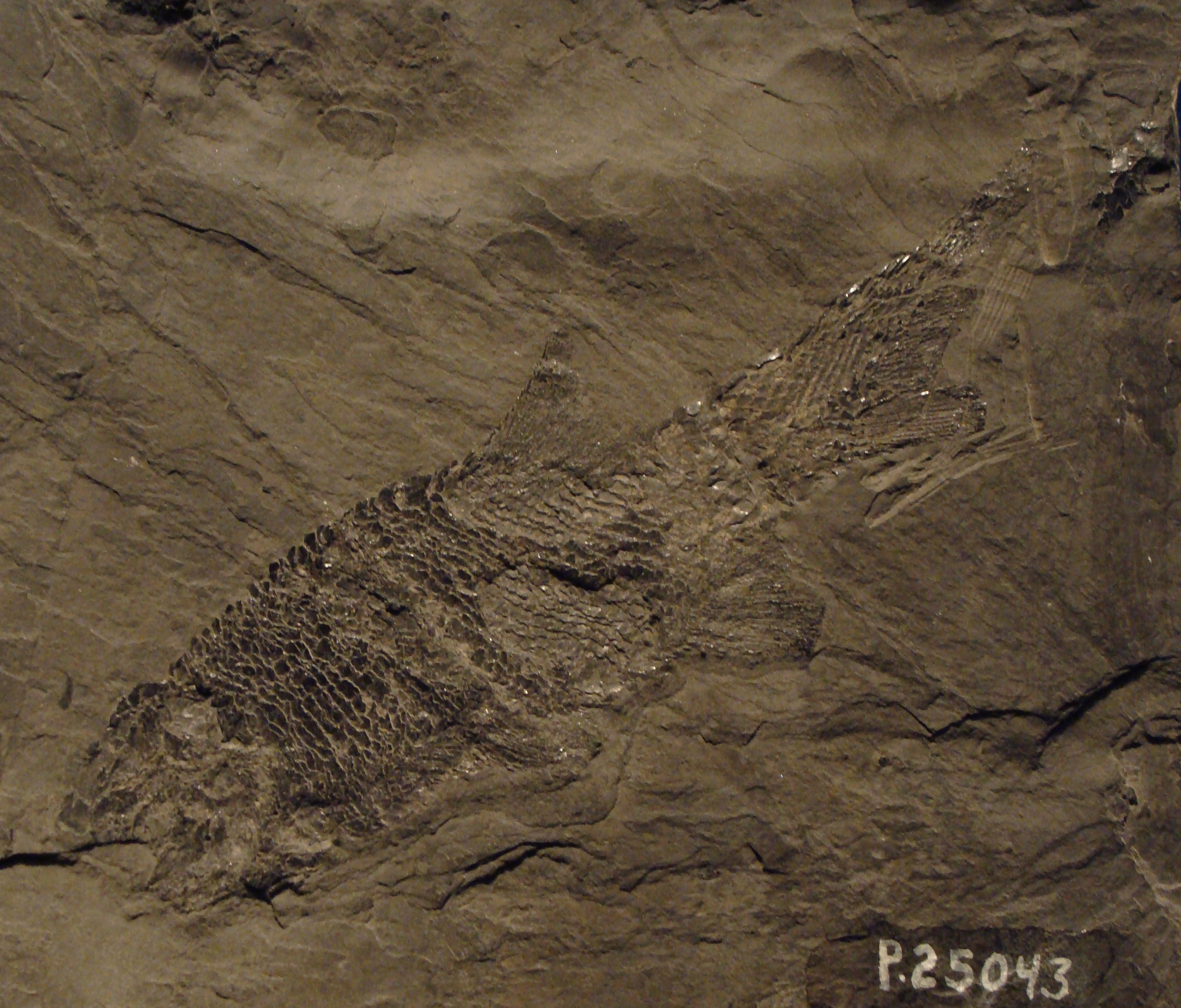 Amblypterus blainviellei in the Field Museum, Chicago.